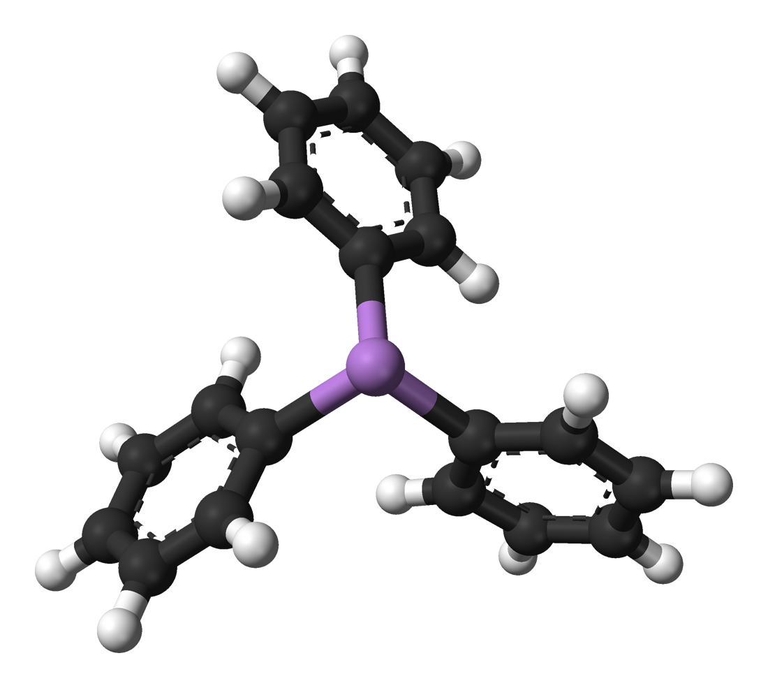 Ball-and-stick model of the triphenylarsine molecule, AsPh3. X-ray crystallographic data from Mazhar-ul-Haque, Hasan A. Tayim, Jamil Ahmed and William Horne (1985). "Crystal and molecular structure of triphenylarsine". Journal of Chemical Crystallography 15: 561-571.